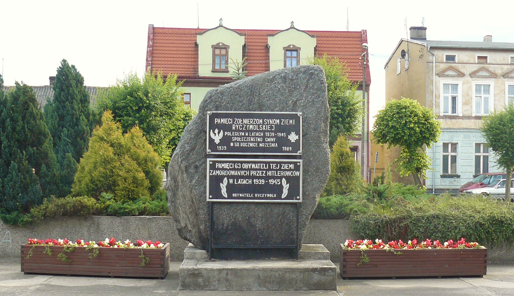 Ryczywol - Monument.